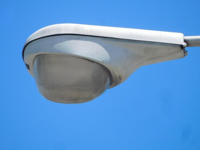 History of street lighting - American Electric/AEL - Model 327-000 (700–1000 watts) AEModel327000X1MV.jpg